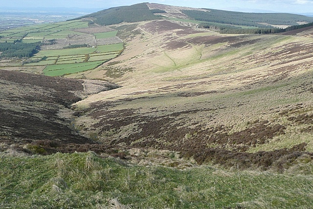 From Head of Burren Bridge The road crosses the Head of Burren Bridge here. The headwaters of the Burren River can be seen dropping off the moorland.